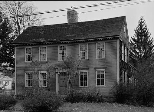 Wells-Thorn House, Old Deerfield Street & Memorial Road, Deerfield (Franklin County, Massachusetts) (cropped)